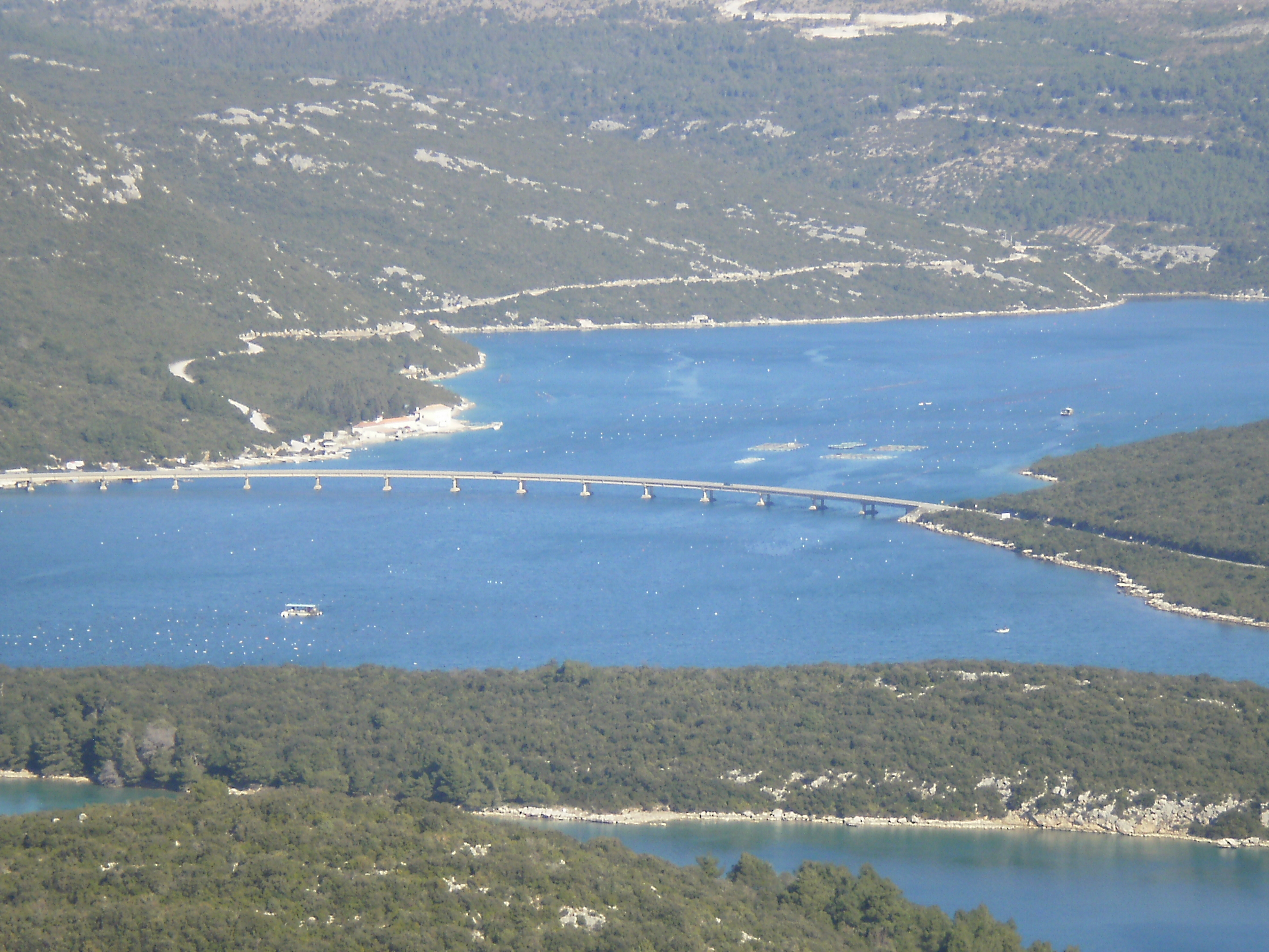 Bistrina bay and bridge OLYMPUS DIGITAL CAMERA